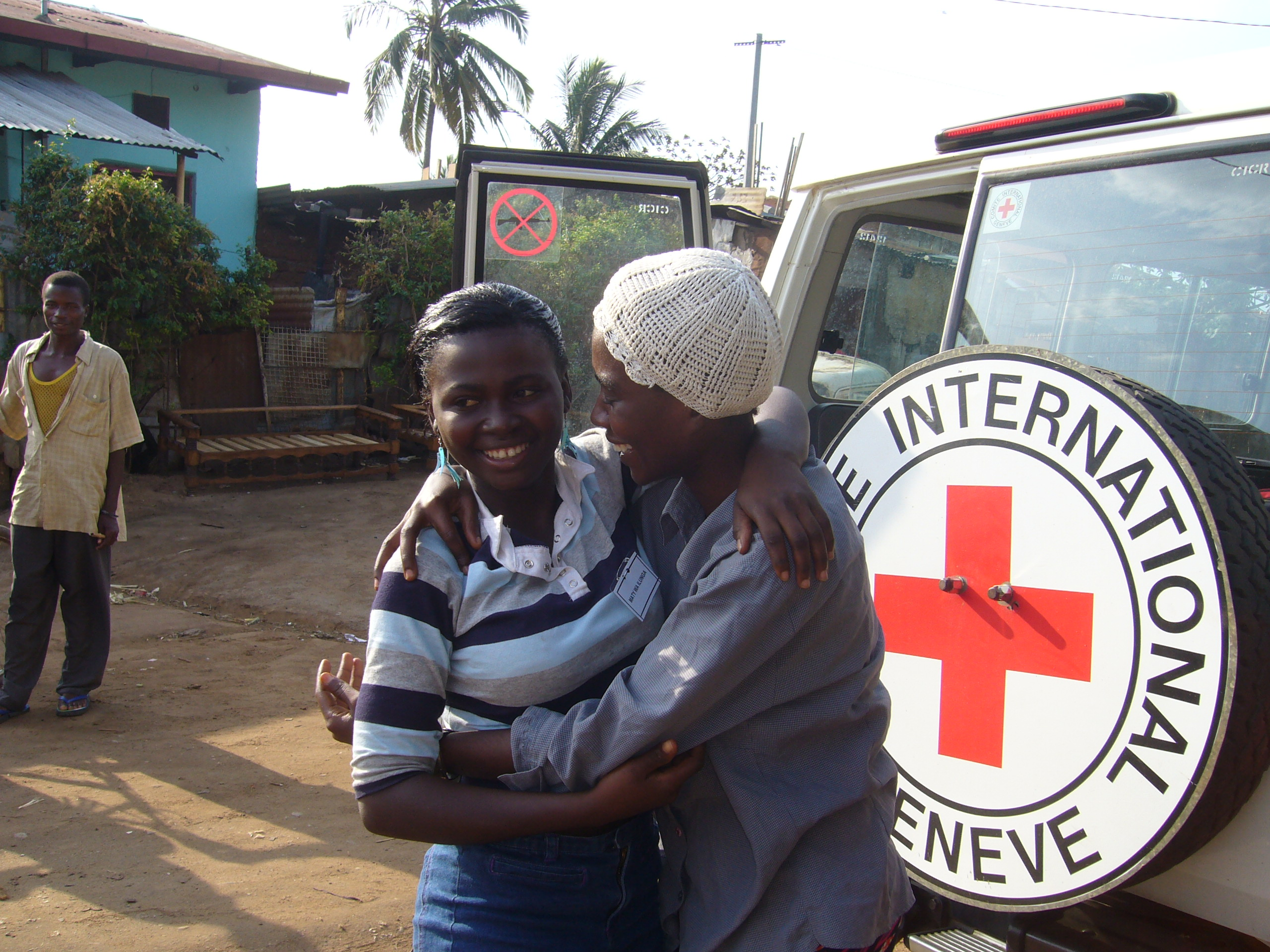 Trying to locate people, and put them back into contact with their relatives, is a major challenge for the ICRC. The work includes tracing people, exchanging family messages, reuniting families and seeking to clarify the fate of those who remain missing.